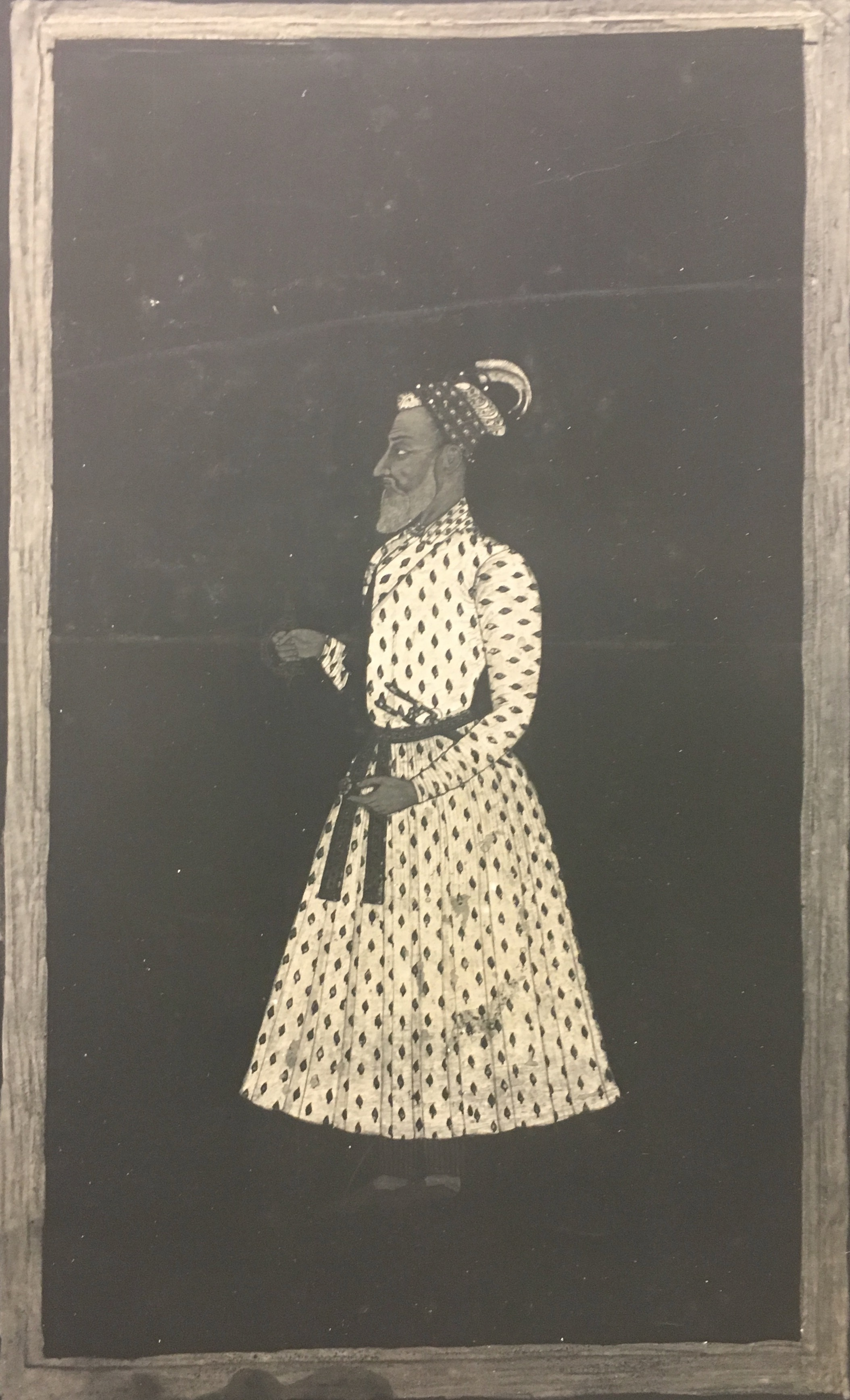 Mughal Miniature of the Nawab of Karnatic (Carnatic/ Arcot), Saadatullah Khan